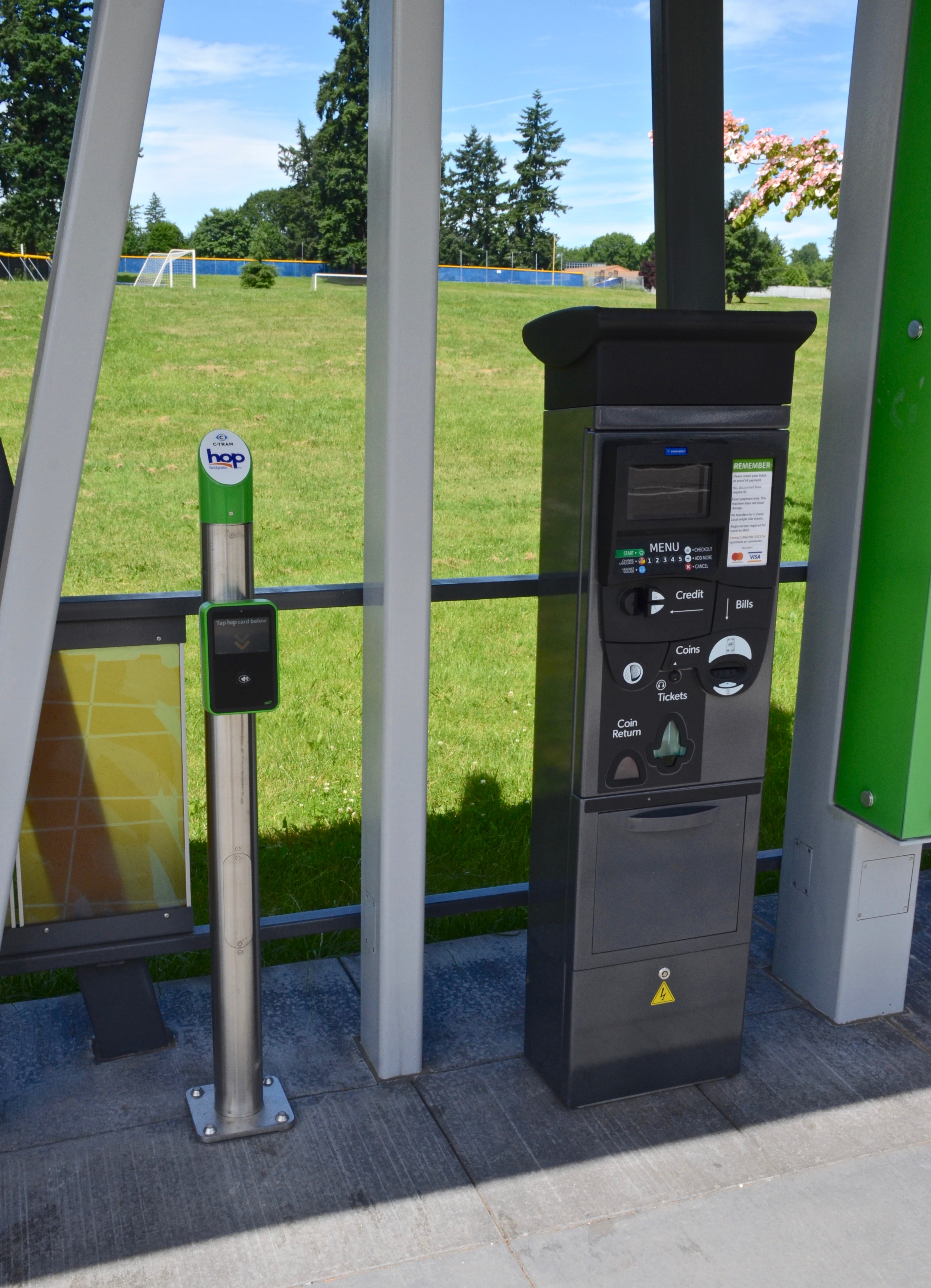 Hop Fastpass reader and ticket vending machine at a station on C-Tran's "The Vine" service. These are at the westbound Marshall/Luepke Community Center station.